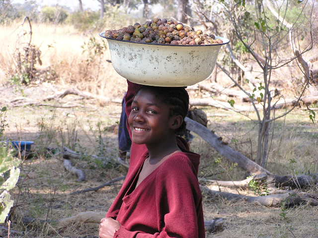 Photo I took of one girl amongst some young girls and women gathering foods in the Okavango in August, 2004.